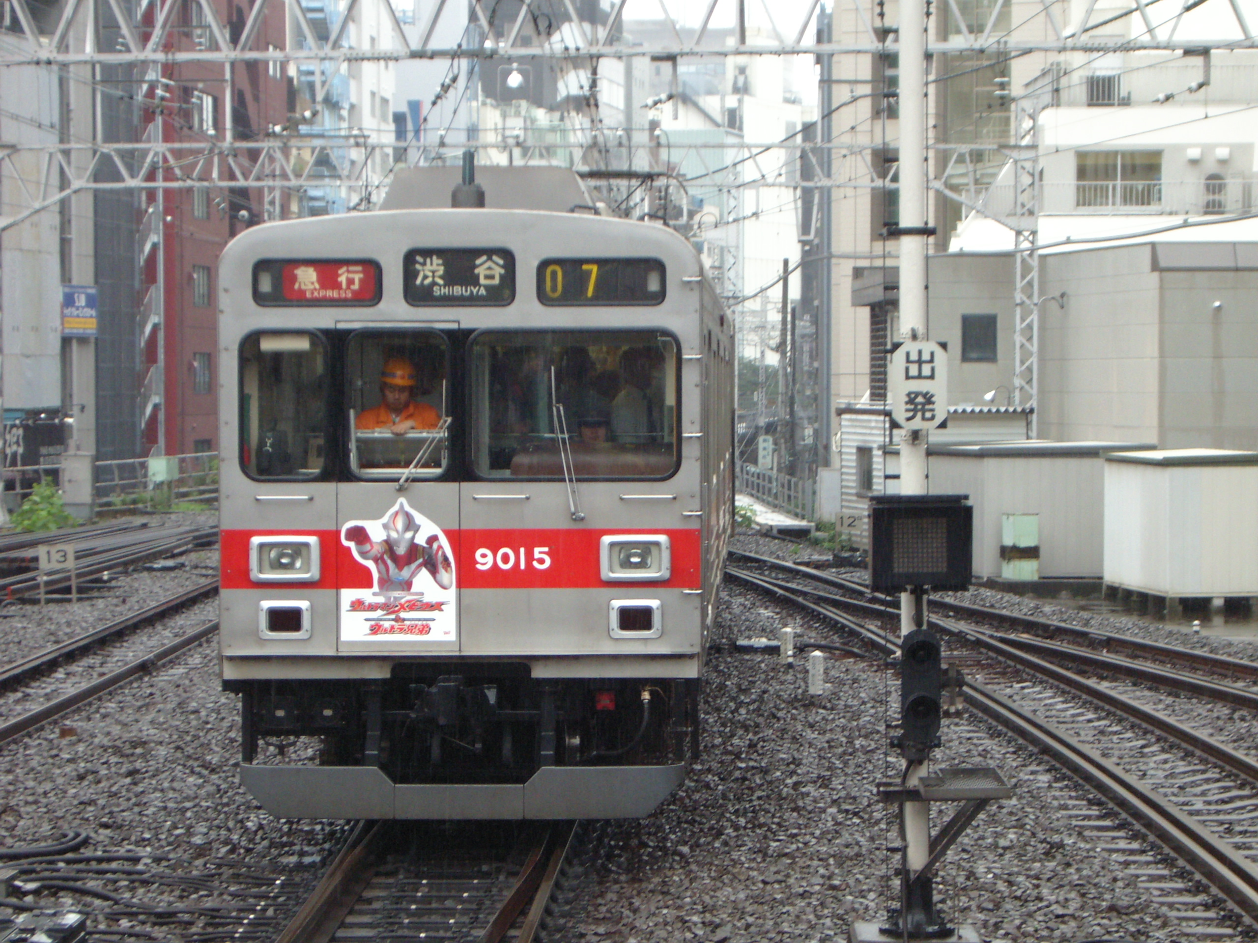 Tokyu Railway Type 9000 Ultraman Train